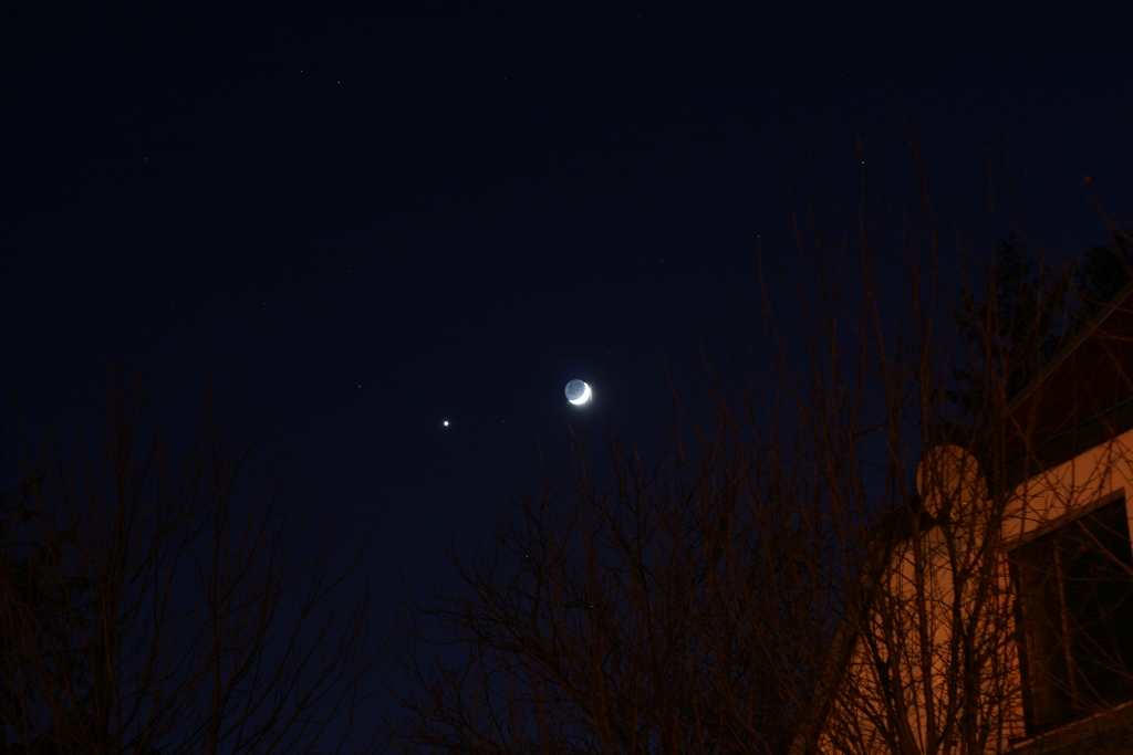 Conjunction of Jupiter and Moon, 31 December 2008.